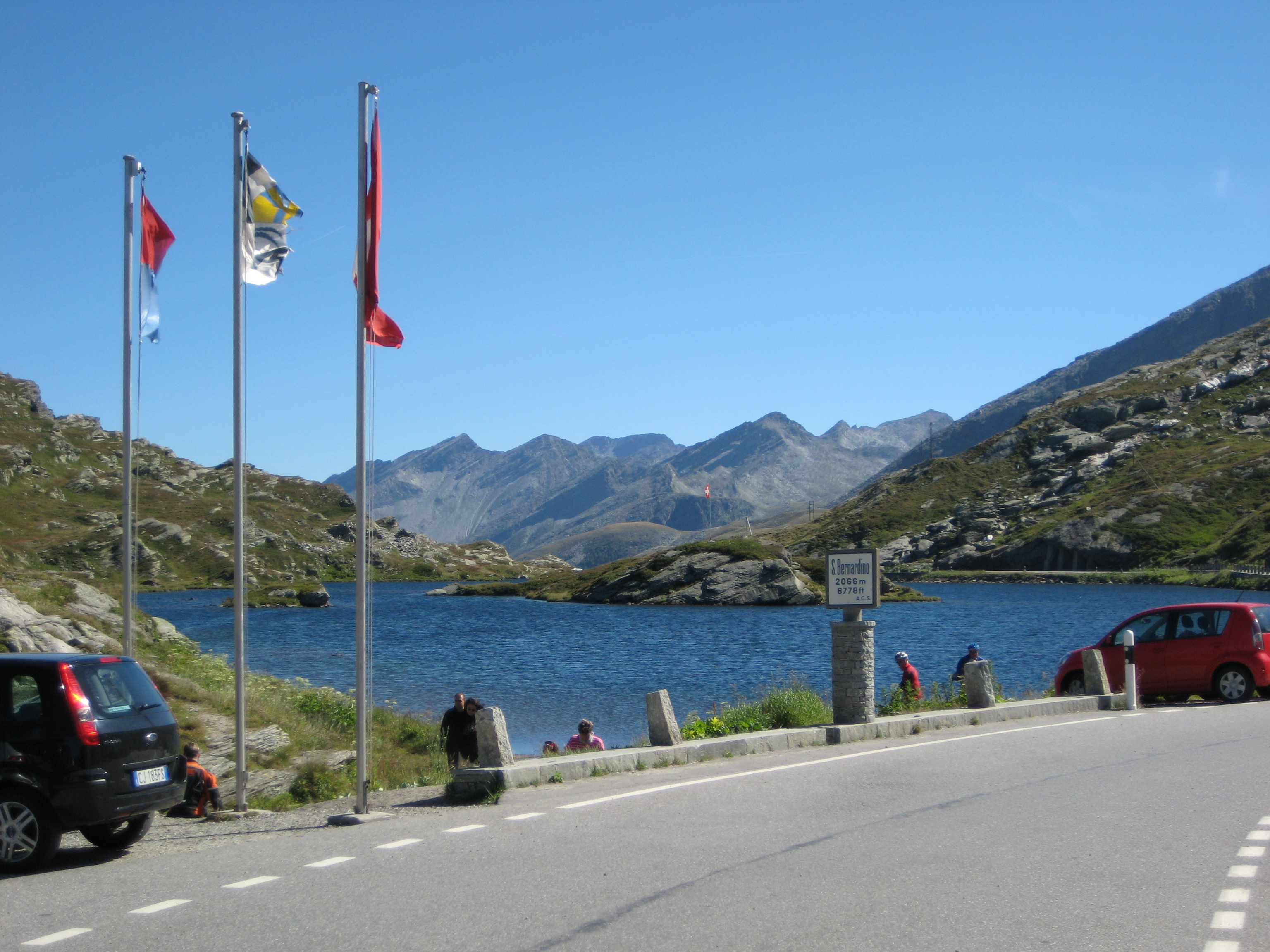 San Bernardino Pass